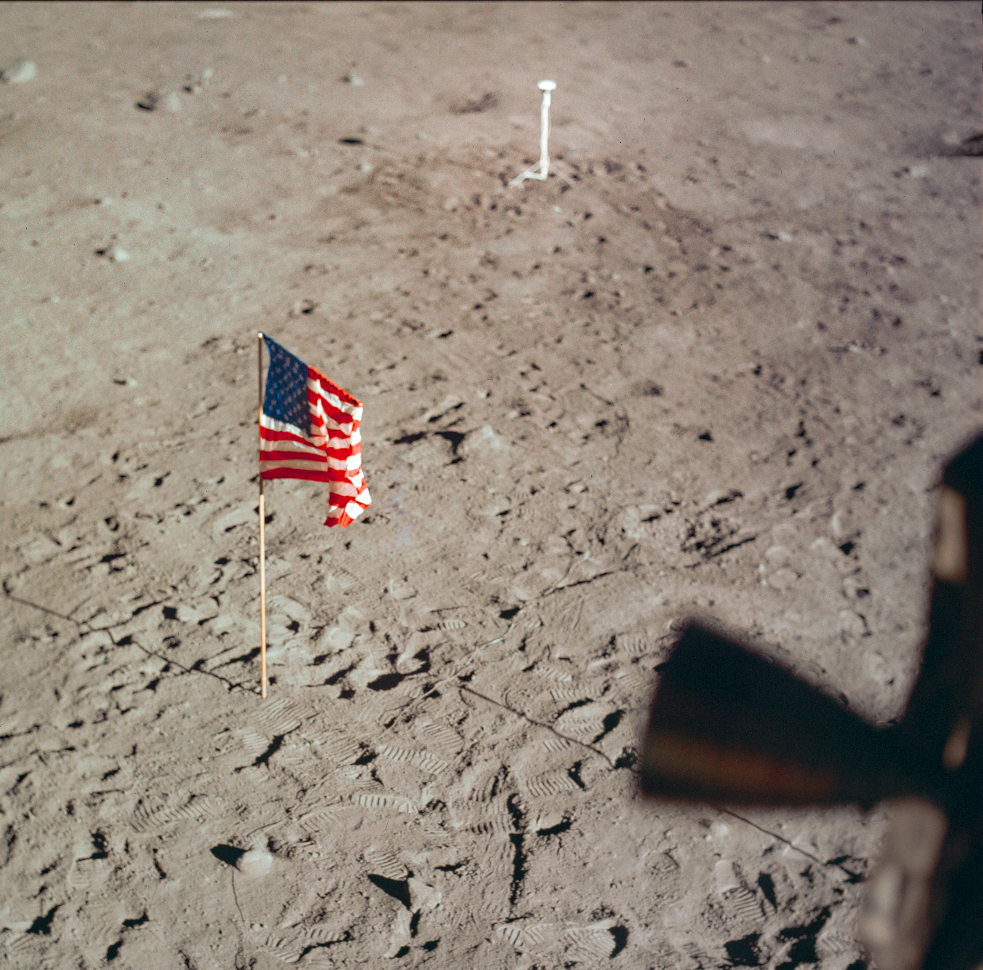 Apollo 11 photo of USA flag and lunar camera with SEC tube on the moon Sea of Tranquility on moon